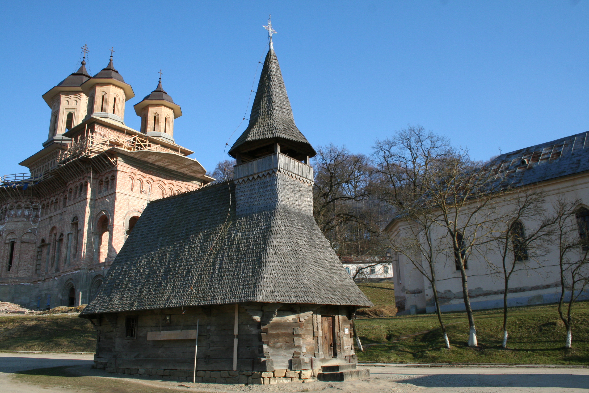 Nicula Monastery, erected during the 18th century, is an important pilgrimage site in northern Transylvania. This monastery houses the renowned wonder-working Madonna of Nicula. The icon is said to have wept between 15 February and 12 March 1669. During this time, nobles, officers, laity and clergy came to see it. At first they were skeptical, looking at it on both sides, but then humbly crossed themselves and returned home petrified by the wonder they had seen. During the feast of the Dormition of the Theotokos (commemorating the death of the Virgin Mary) on 15 August, more than 150 thousand people from all over the country come to visit the monastery.